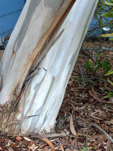 Eucalyptus burgessiana at Mount Annan Botanic Gardens